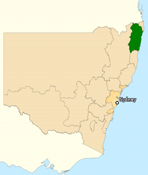 Incorporates or developed using Administrative Boundaries ©PSMA Australia Limited licensed by the Commonwealth of Australia under Creative Commons Attribution 4.0 International licence (CC BY 4.0). Derived from State and Territory Boundaries from the Australian Bureau of Statistics under Creative Commons Attribution 2.5 Australia license (CC BY 2.5 AU)